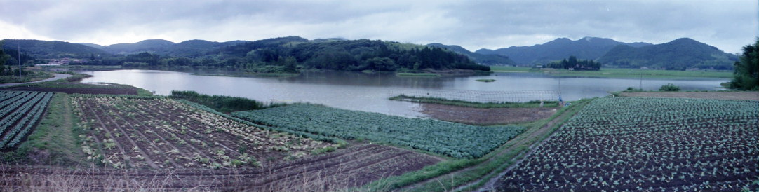 temporary karst lake